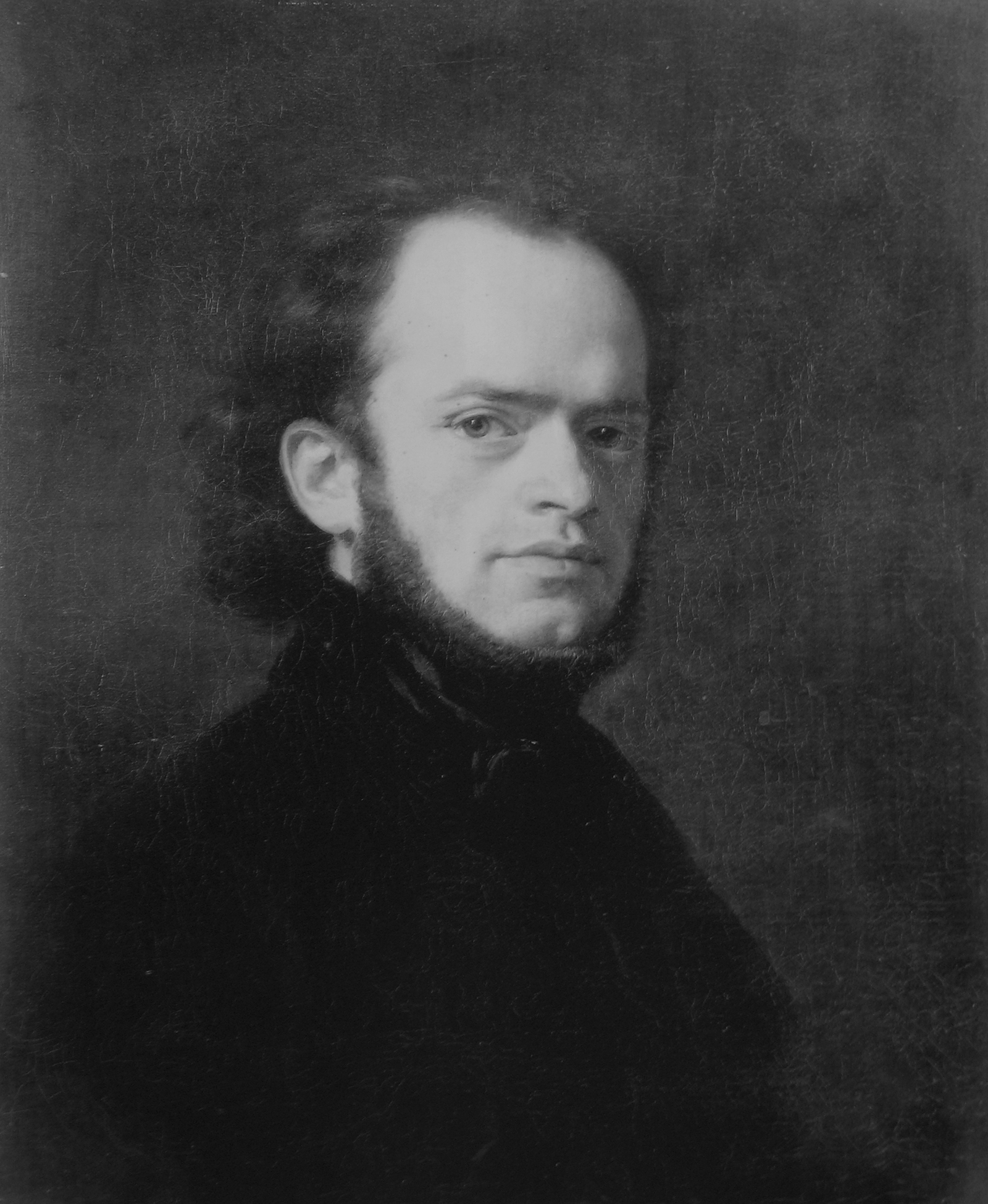 Portrait of the German painter Adolph Menzel